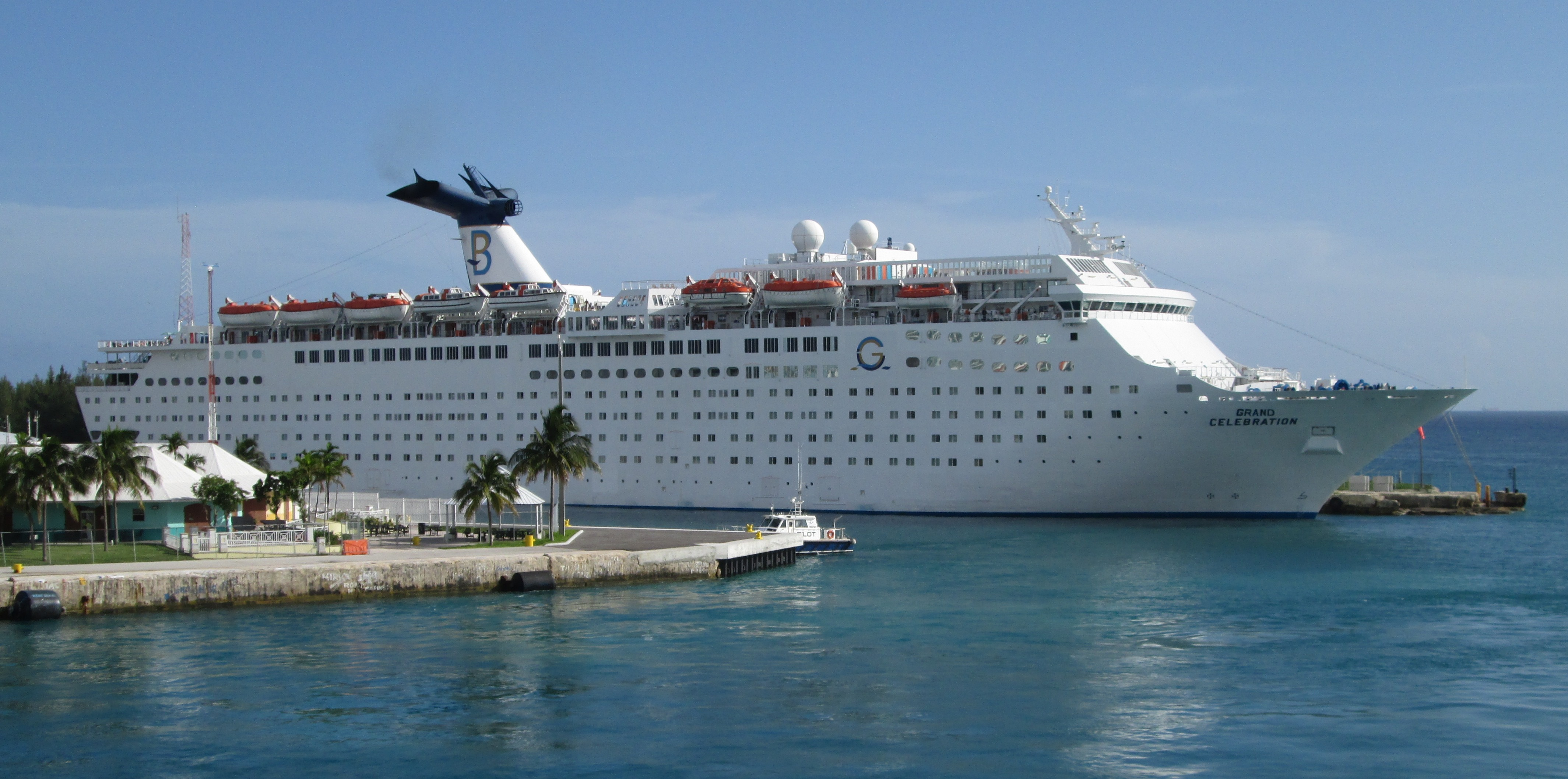 MS Grand Celebration at dock in Freeport, Bahamas, is owned by Bahamas Paradise Cruise Lines. It was launched in 1986.